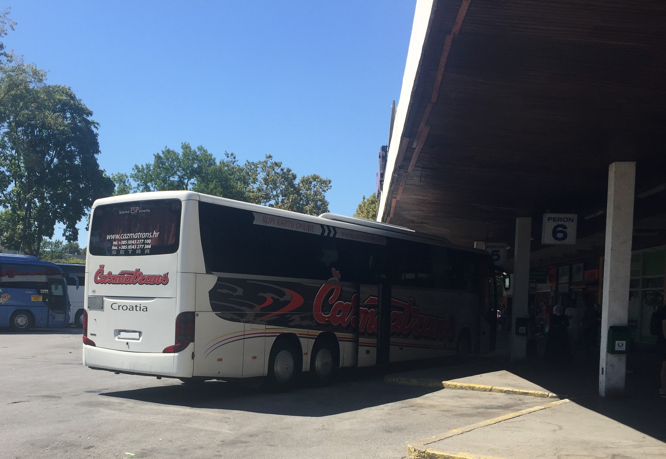 Long distance bus of Čazmatrans in Slavonski Brod, August 19th 2019